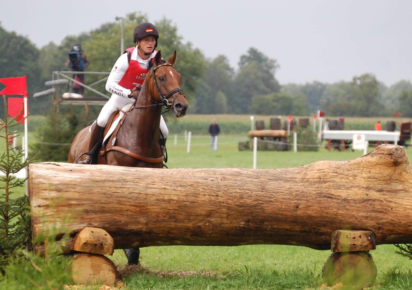 Michael Jung and La Biosthetique Sam FBW, fence 29 "HSBC Hurdle" (cross-country phase), 2011 European Eventing Championship, Luhmühlen